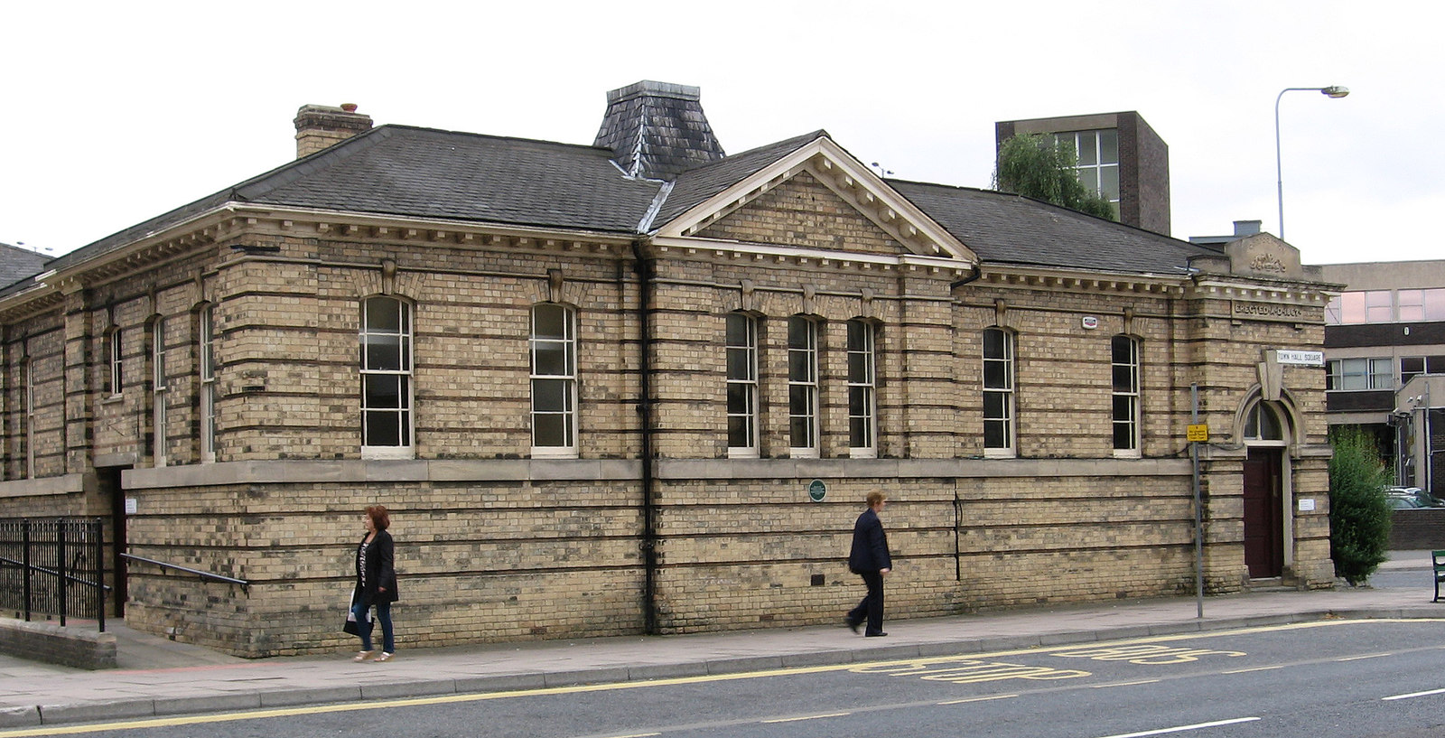 Grimsby - former Corporation Grammar School. Corporation Grammar School, Grimsby. 1861-3 by Bellamy and Hardy. Edward VI granted licence for the first Free Grammar School in Grimsby in 1547. Edward's licence led to The Corporation Free Grammar which in was located alongside the new Town hall, Courthouse and Police station. It was and designed to hold 100 students. In 1895 the Winteringham School or Grimsby Municipal College in Eleanor Street was opened, which was to take over the functions of the Grammar School.